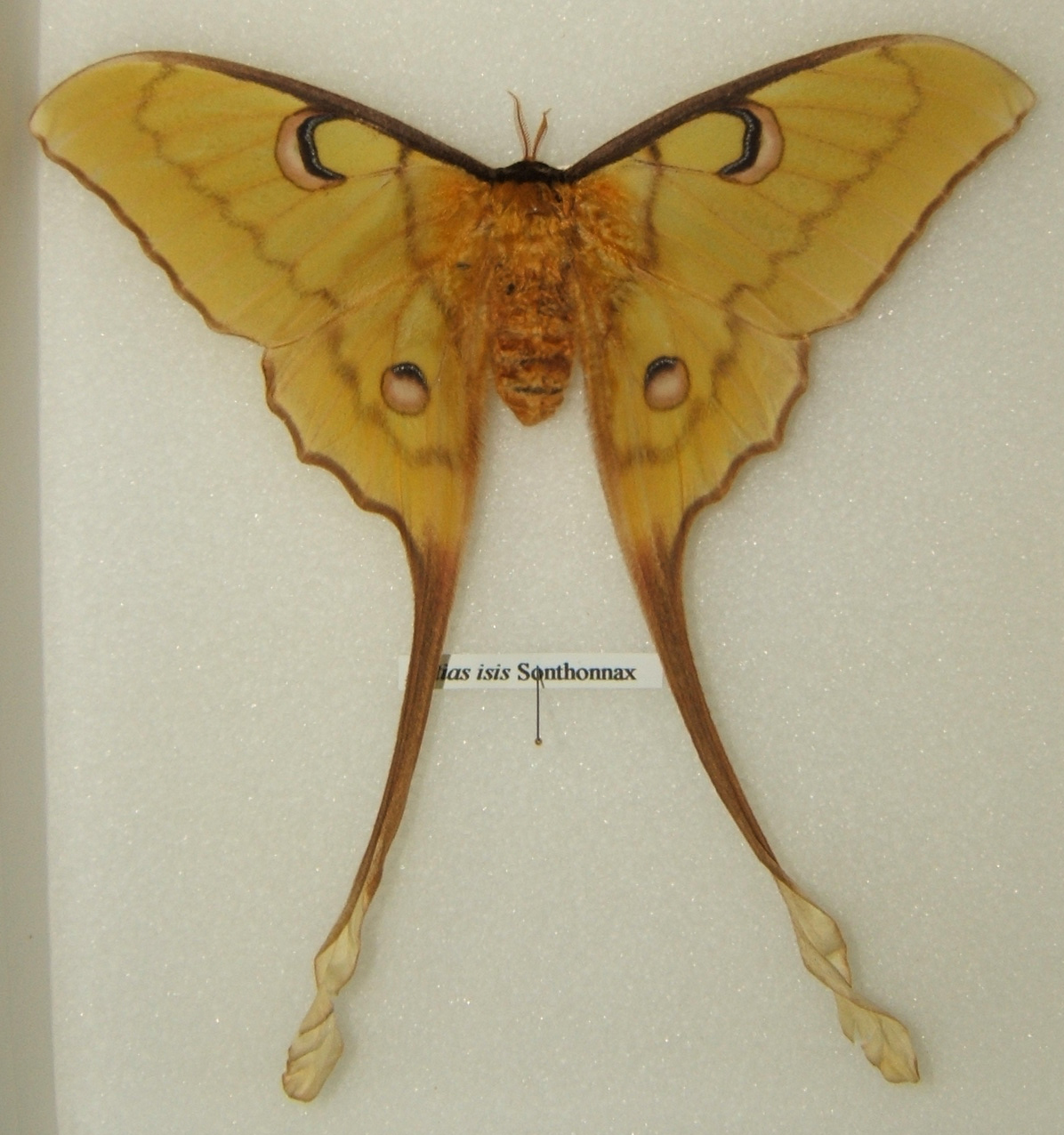 Actias isis adult female taken by Shawn Hanrahan at the Texas A&M University Insect Collection in College Station, Texas.